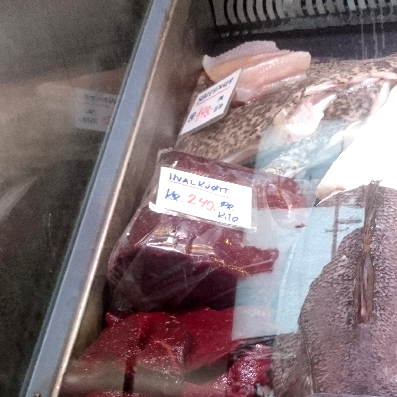 Whale meat (Norsk bokmål: hvalkjøtt) in a Norwegian restaurant (Fish Me) in Bergen. Sales prise: 249 NOK/kg)